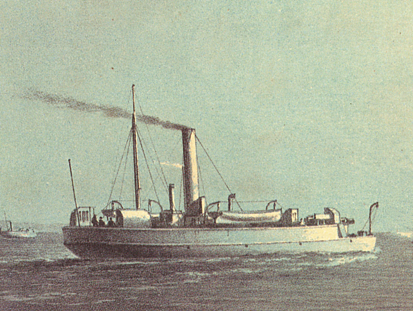 Detail of the painting HMS Enterprise & H.M.C.B Comet showing the Ant class flatiron gunboat HMS Comet